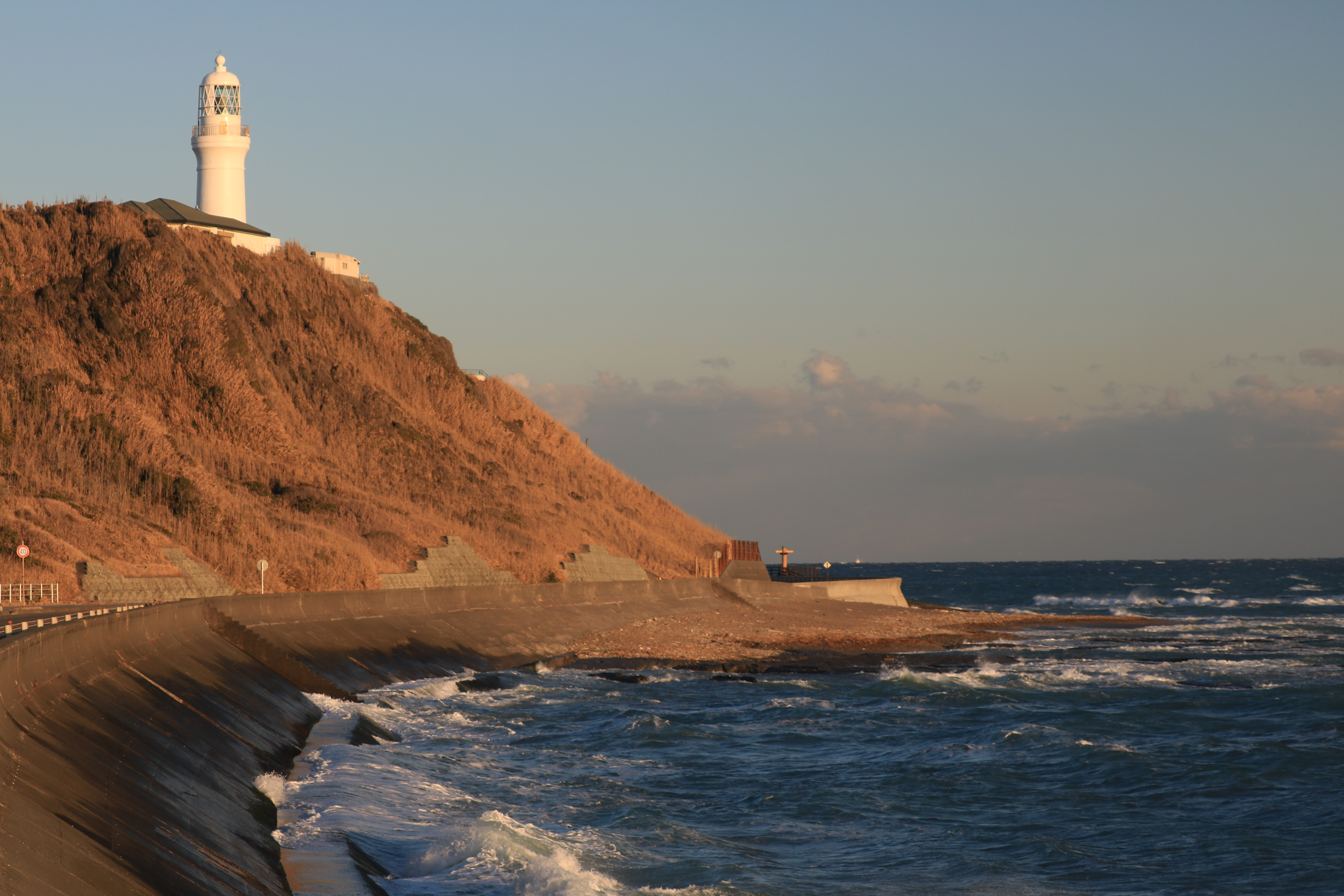 Omaezaki Lighthouse and Cape Omaezaki in Omaezaki, Shizuoka Prefecture, Japan.